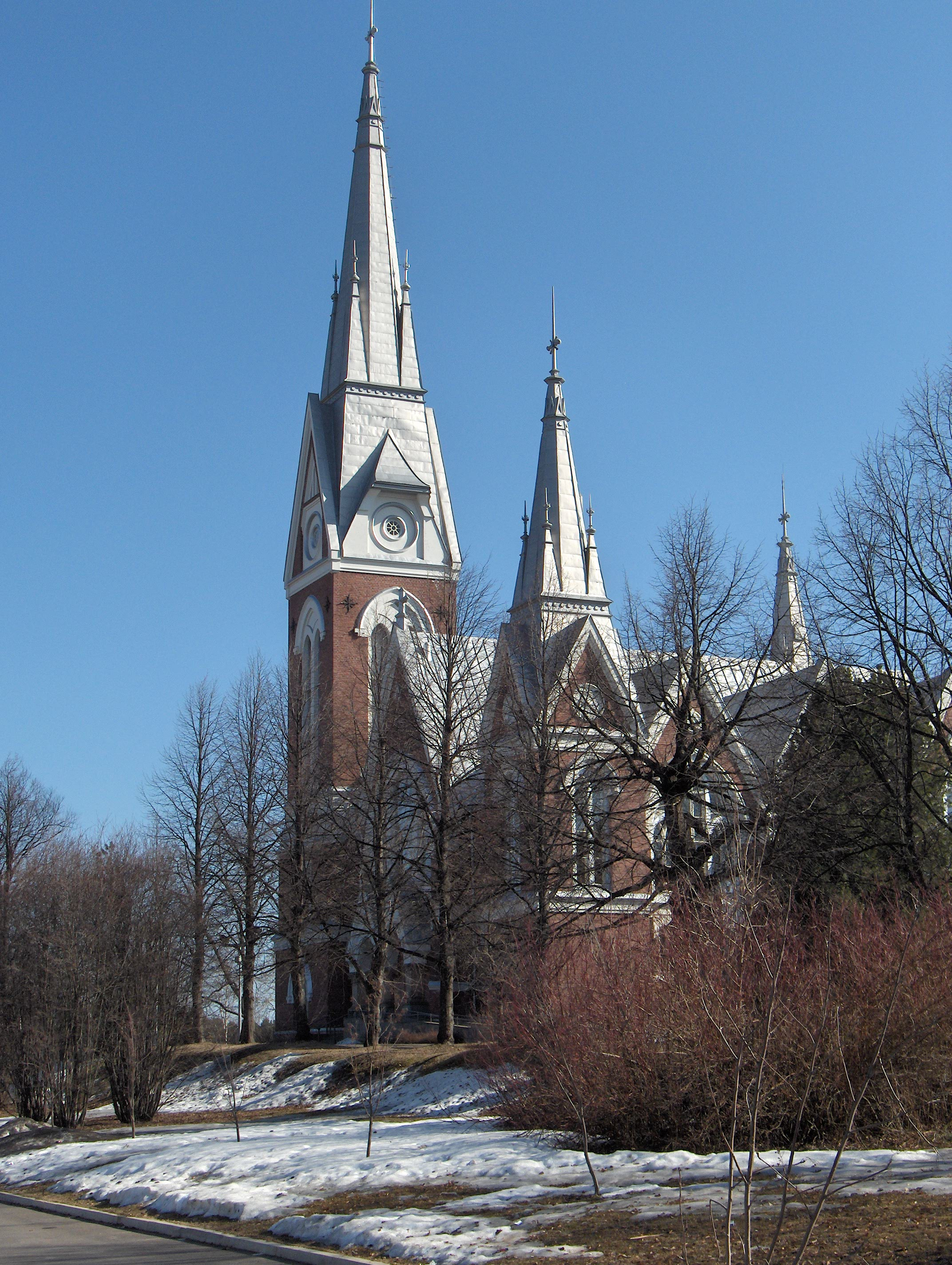 Evangelical-Lutheran Church, Joensuu, Finland